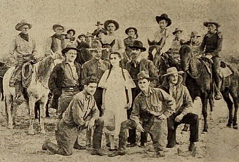 Photograph accompanying news item titled "Jack Ford's Company" published in The Moving Picture Weekly (New York, N.Y.), May 19, 1917, p. 18; original caption to image reads, "Jack Ford (kneeling at left) with his company."